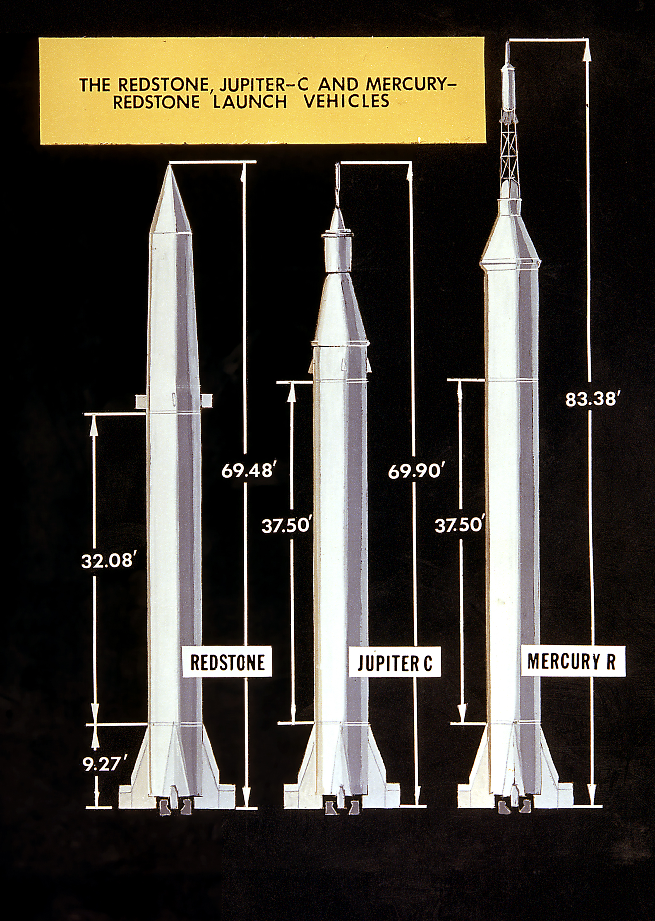 A comparison illustration of the Redstone ballistic missile and the Jupiter-C and Mercury-Redstone launch vehicles. The Redstone was a high-accuracy, liquid-fueled, tactical ballistic missile. The Jupiter-C was a modification of the Redstone missile originally developed as a nose-cone re-entry test vehicle for the Jupiter intermediate range ballistic missile program. A slightly altered version, the Juno I, successfully launched the first American satellite, Explorer 1, into orbit on January 31, 1958. The Mercury-Redstone was the launch vehicle for Project Mercury's sub-orbital flights; it carried the first American into space, astronaut Alan Shepard, in his Mercury spacecraft Freedom 7 on May 5, 1961.